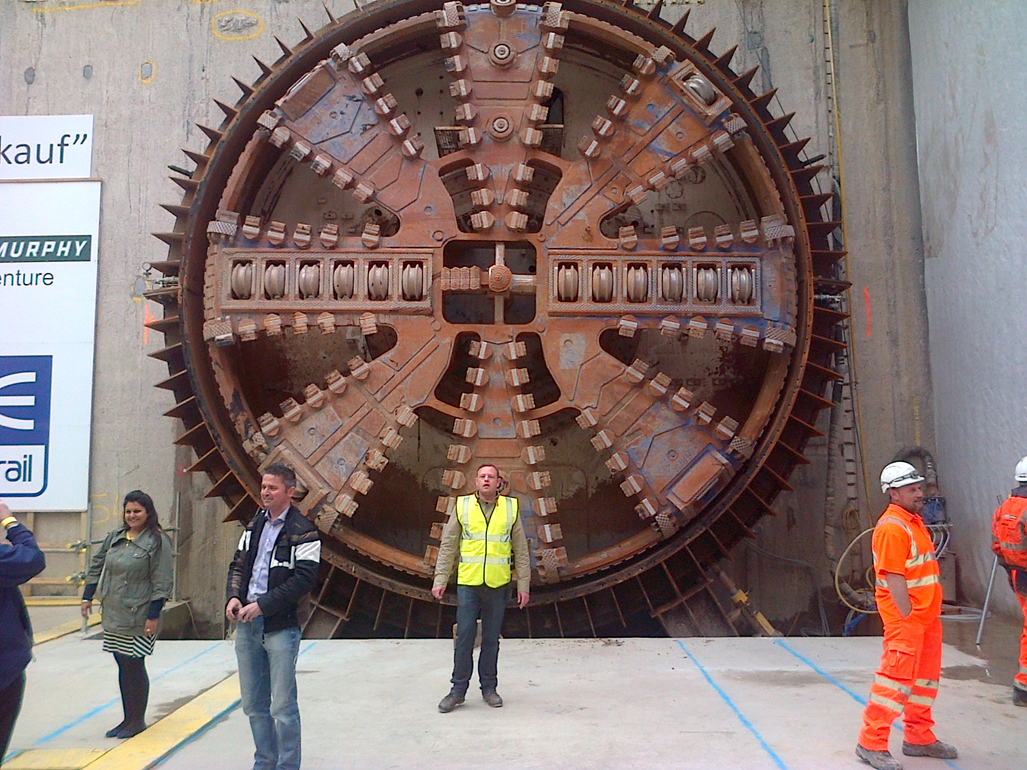 Engineering